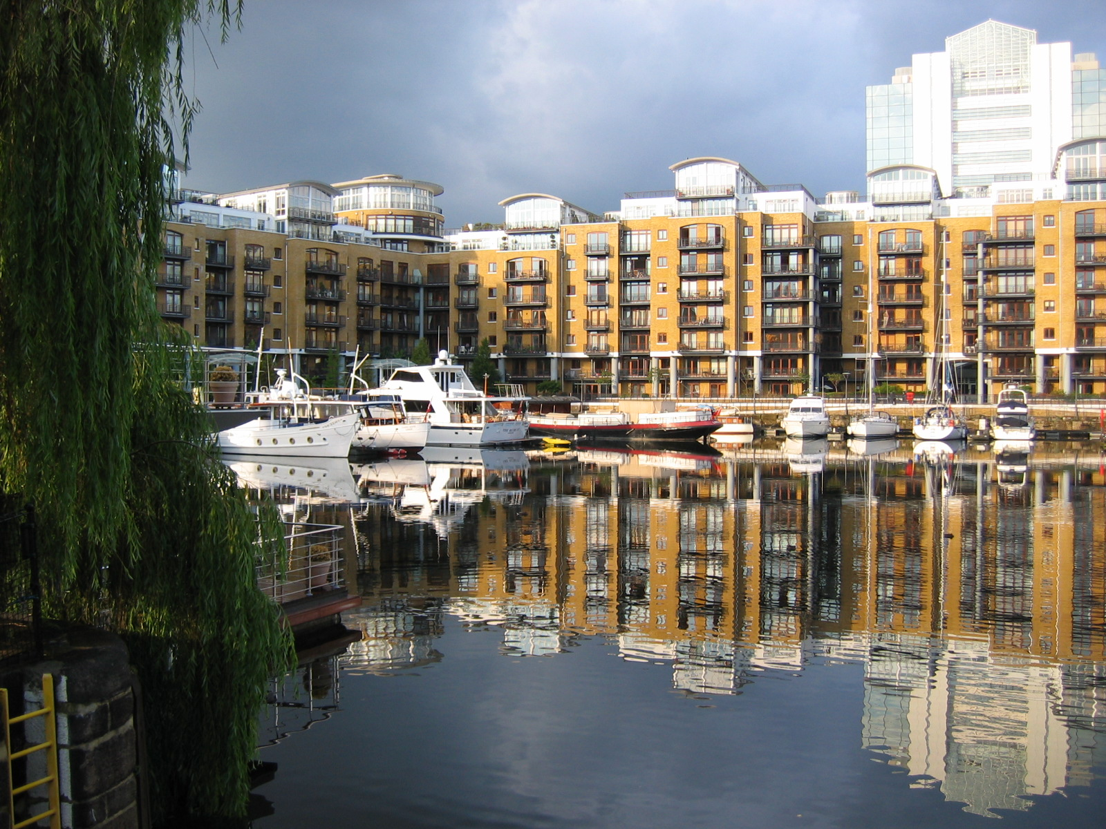 The City Quay Residential Development in St Katherine Docks